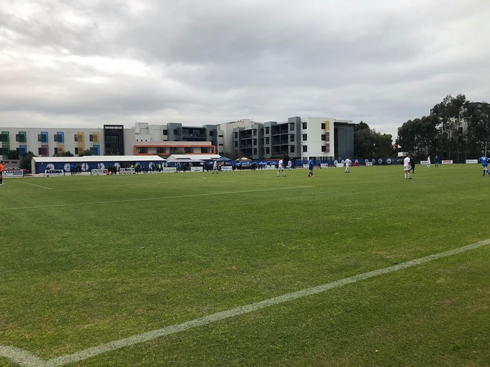 Reggio Calabria Club Soccer Pitch in Burwood